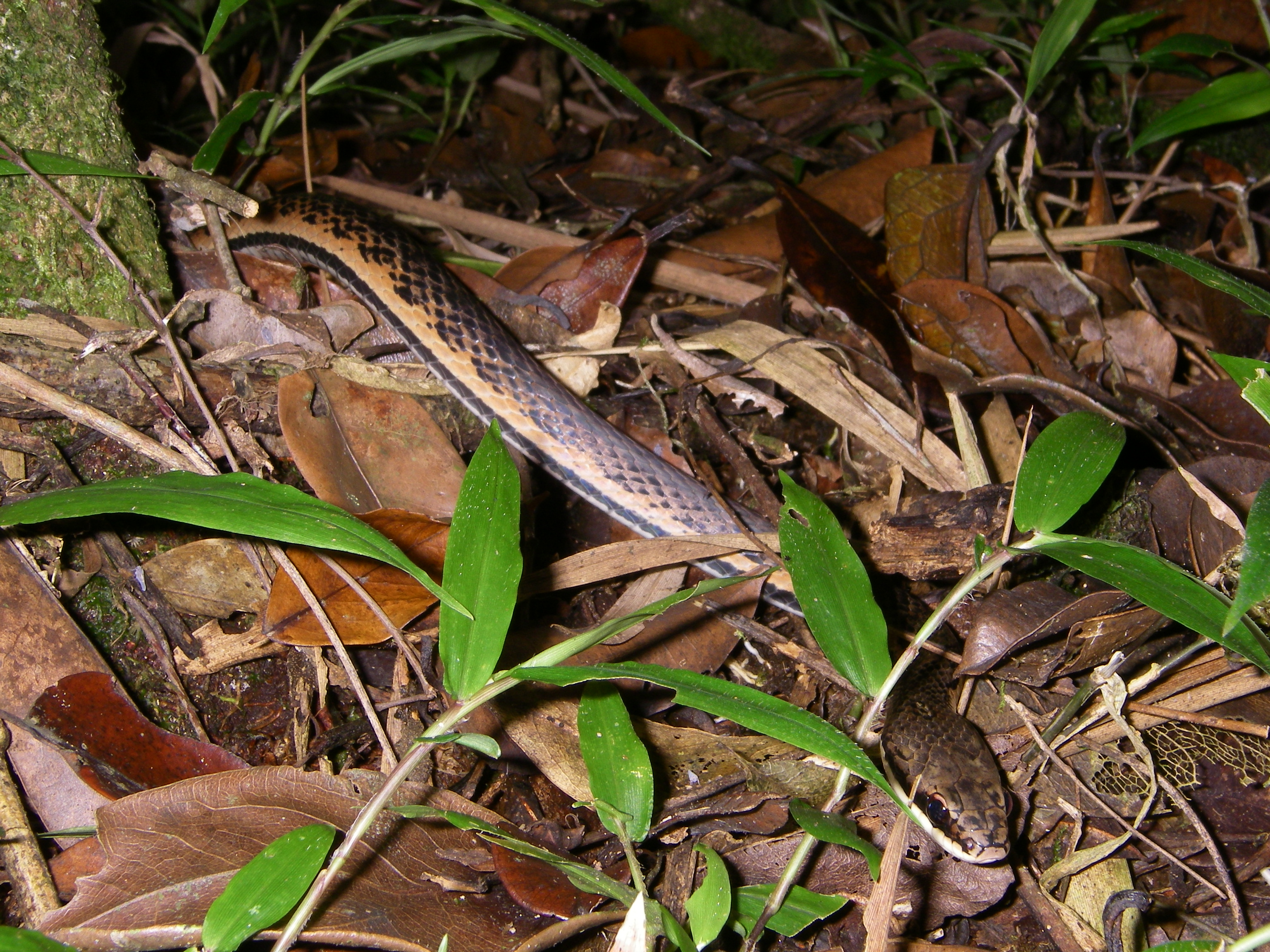 Liopholidophis dolicocercus; Vatoharanana, Ranomafana National Park, Madagascar